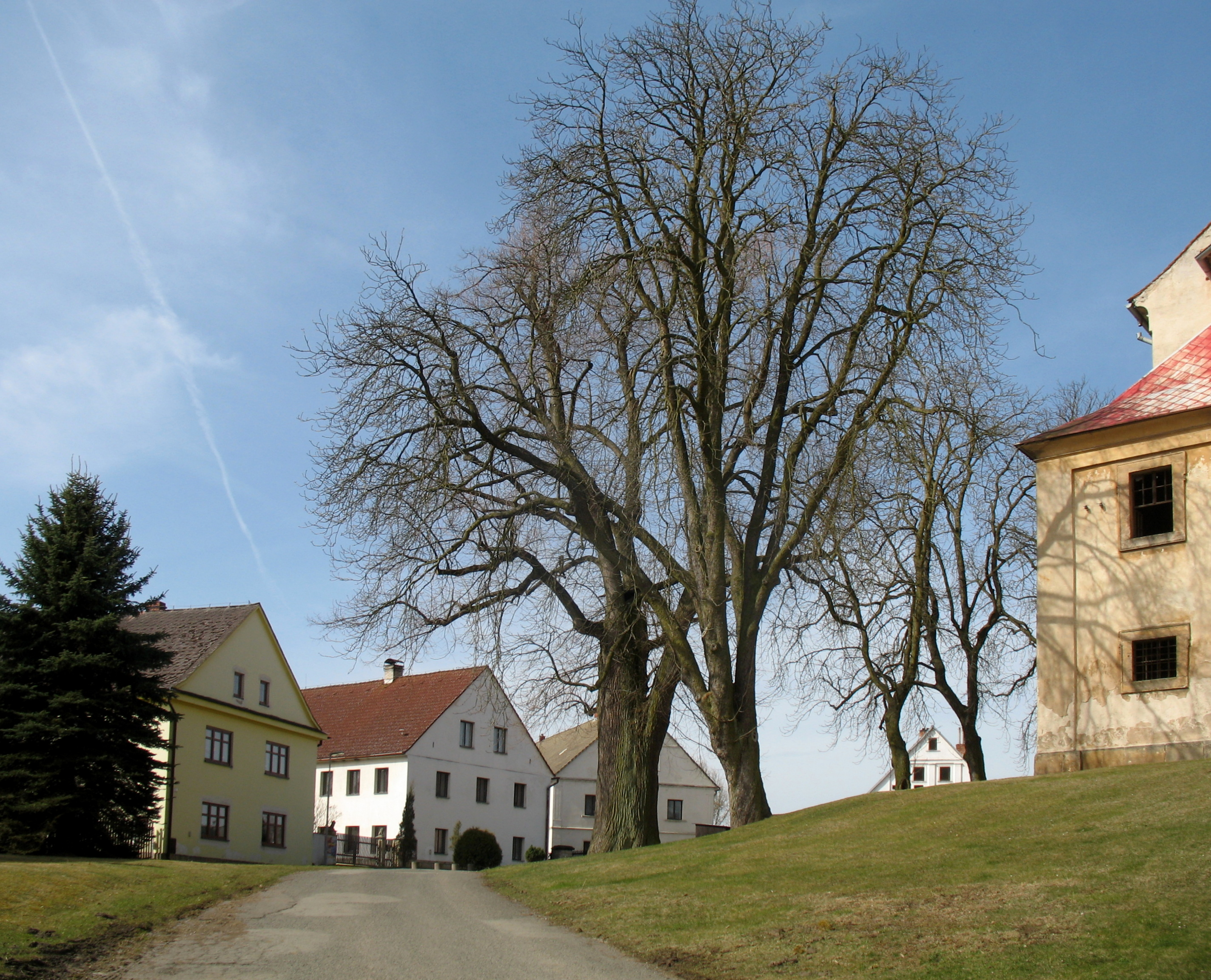 Pavlovice, village square, Česká Lípa District, Northern Bohemia